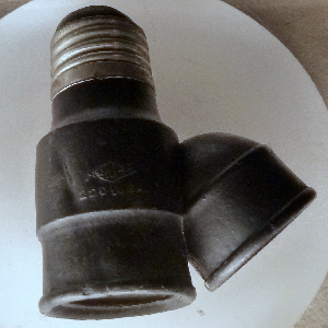 Two way cluster of "To" (ト) type, by Konosuke Matsushita.